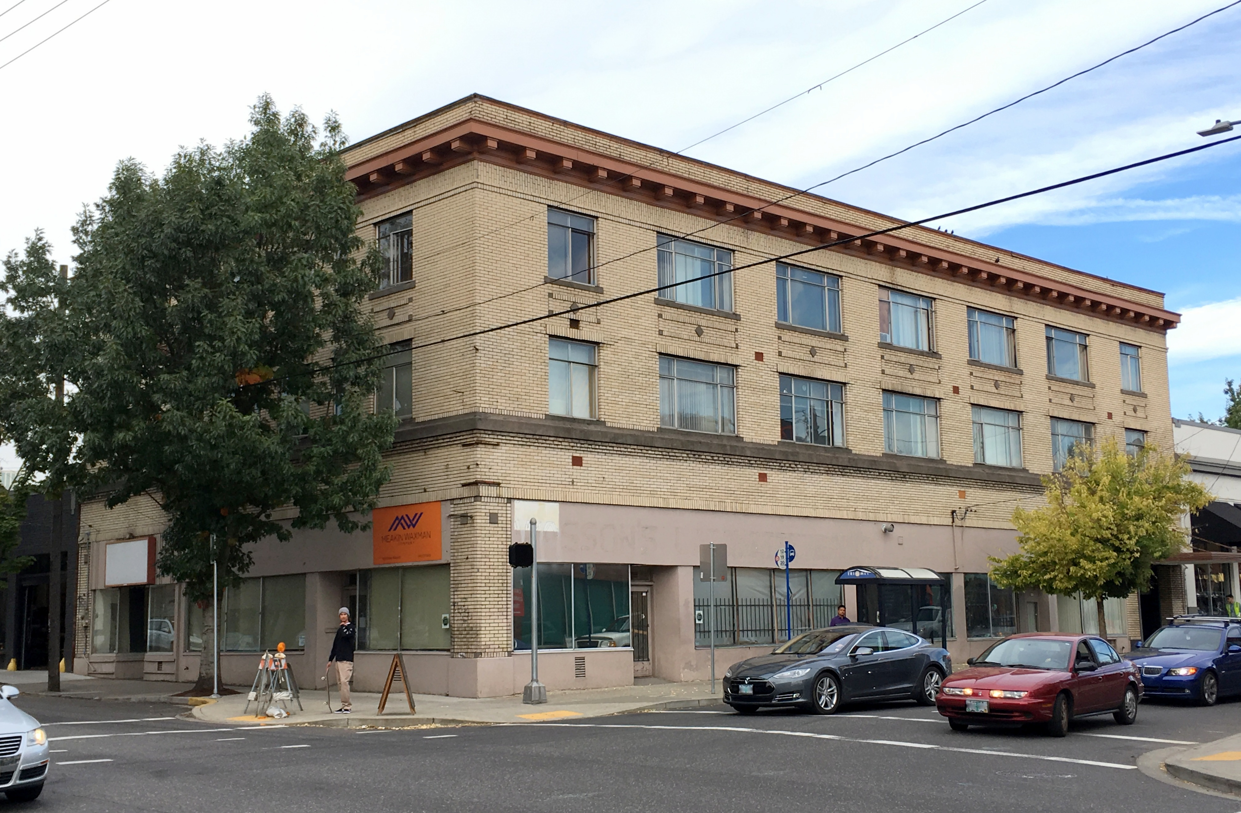 The historic Alco Apartments (built 1912, renovated 1939), located at 100–110 Northeast Martin Luther King Jr. Boulevard in Portland, Oregon, United States, are listed on the U.S. National Register of Historic Places.